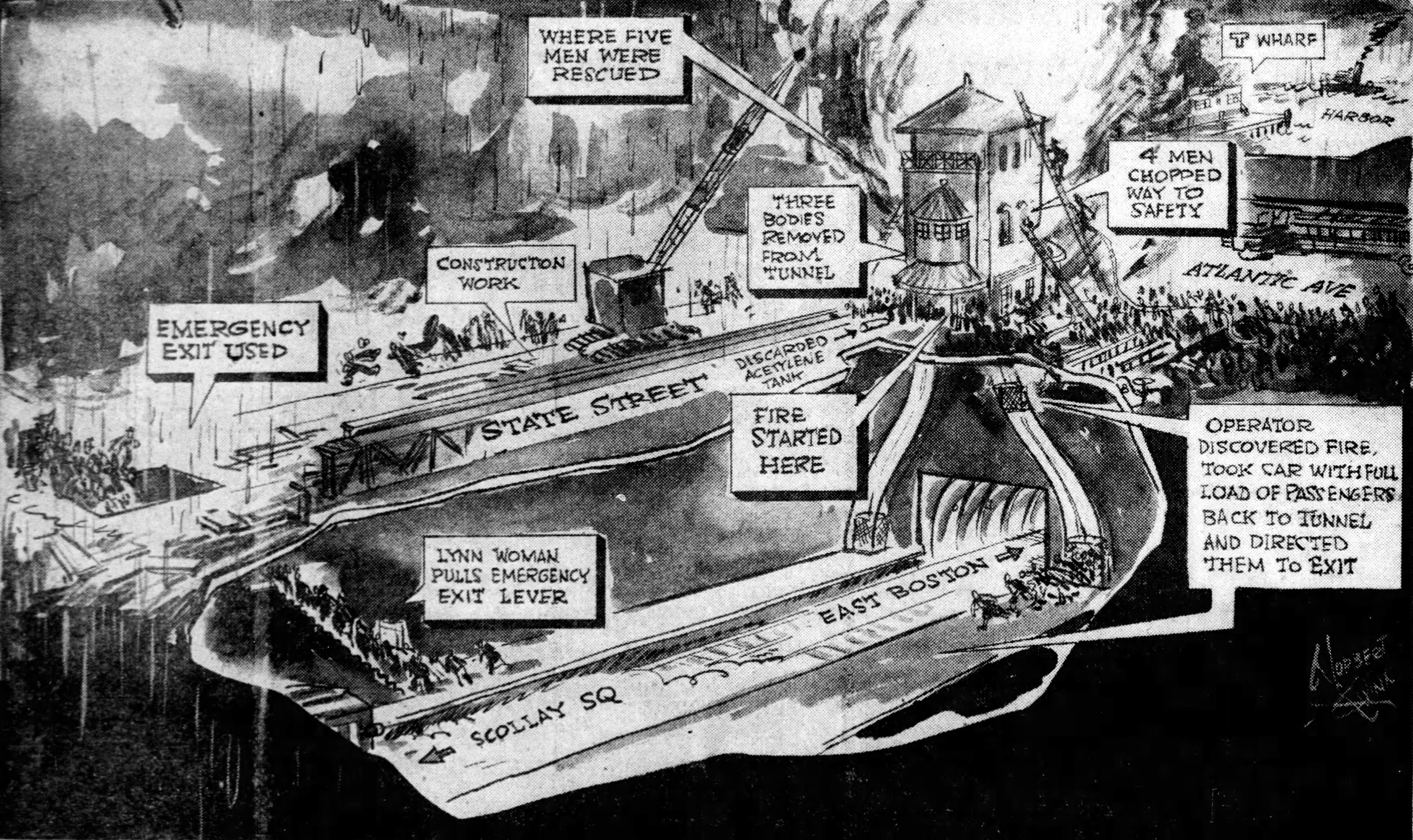 An illustration of the events of the January 1949 fire at Atlantic Avenue station